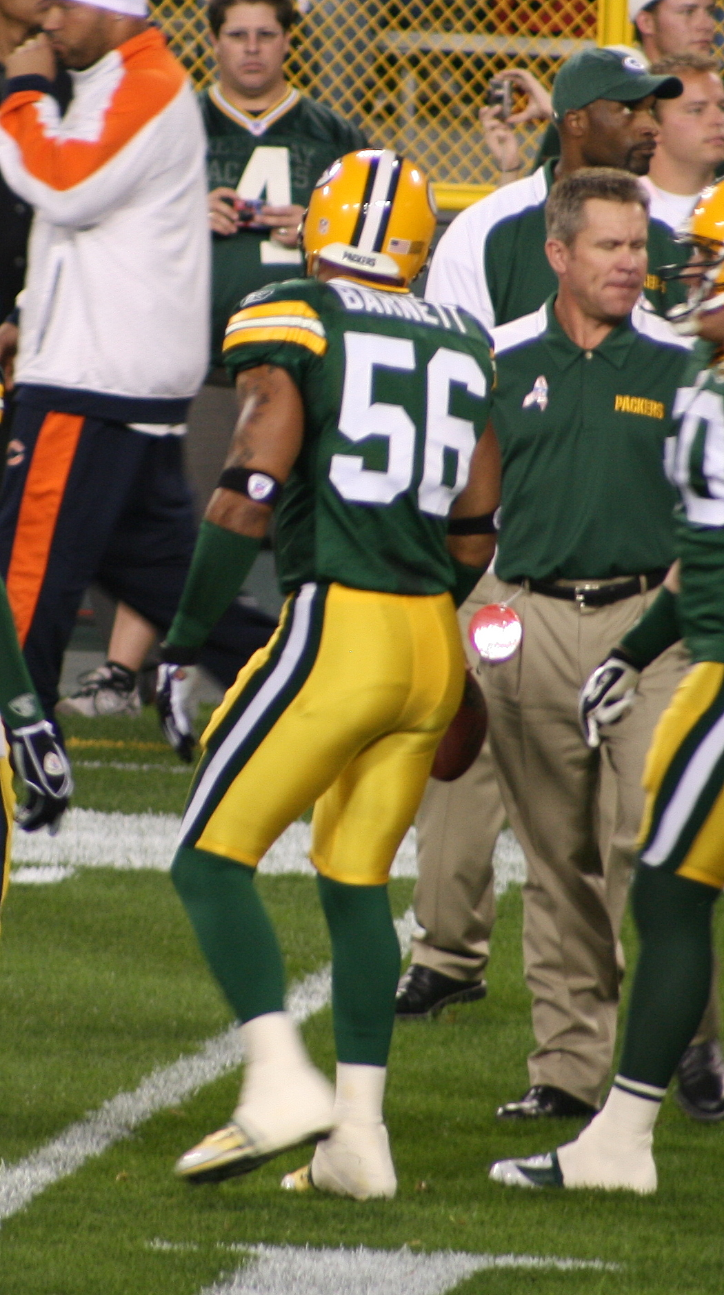 Nick Barnett during pre-game warm-ups.